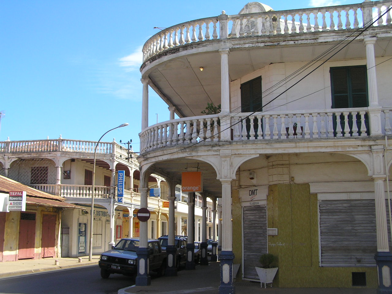 Downtown Antsiranana (Diego-Suarez), largest town in the northern province of Madagascar, located on the coast. The architecture here reflects the influence of Arab and Indian merchants who settled or traded here over the centuries.